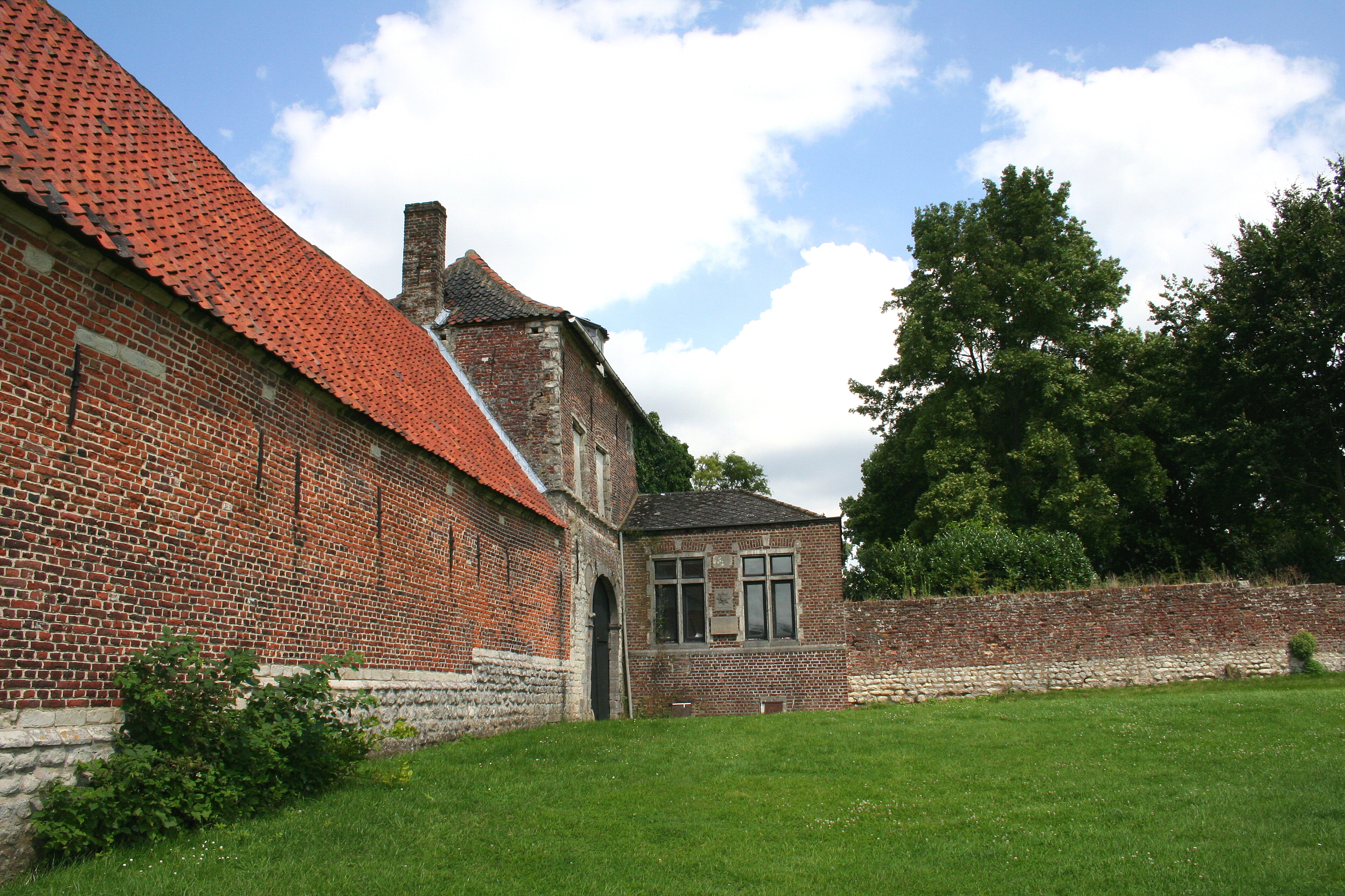 Braine-l'Alleud, the southern porch and garden of the Goumont or Hougoumont Castle-farm (XVIIIth century).